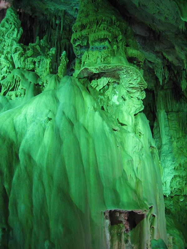 Speleothem inside Abukuma-do Cave in Takine Town, Tamura City, Fukushima Prefecture, Japan. Picture was taken with a Canon Power Shot SD450 Digital Elph camera and modified using a Paint Shop program on a laptop computer.